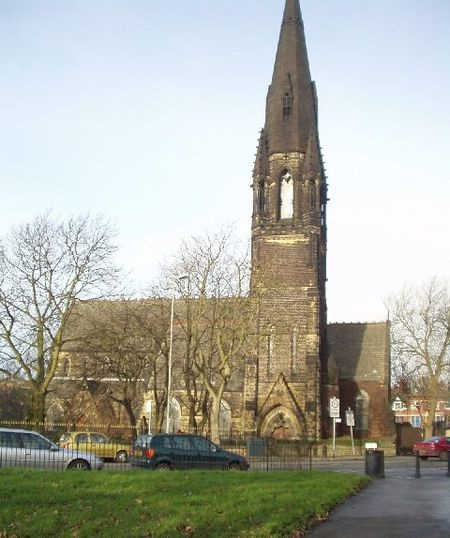 Wrangthorne Church, Hyde Park, Leeds. This church is very close to Hyde Park Corner, at the junction of Hyde Park Road and Hyde Park Terrace.